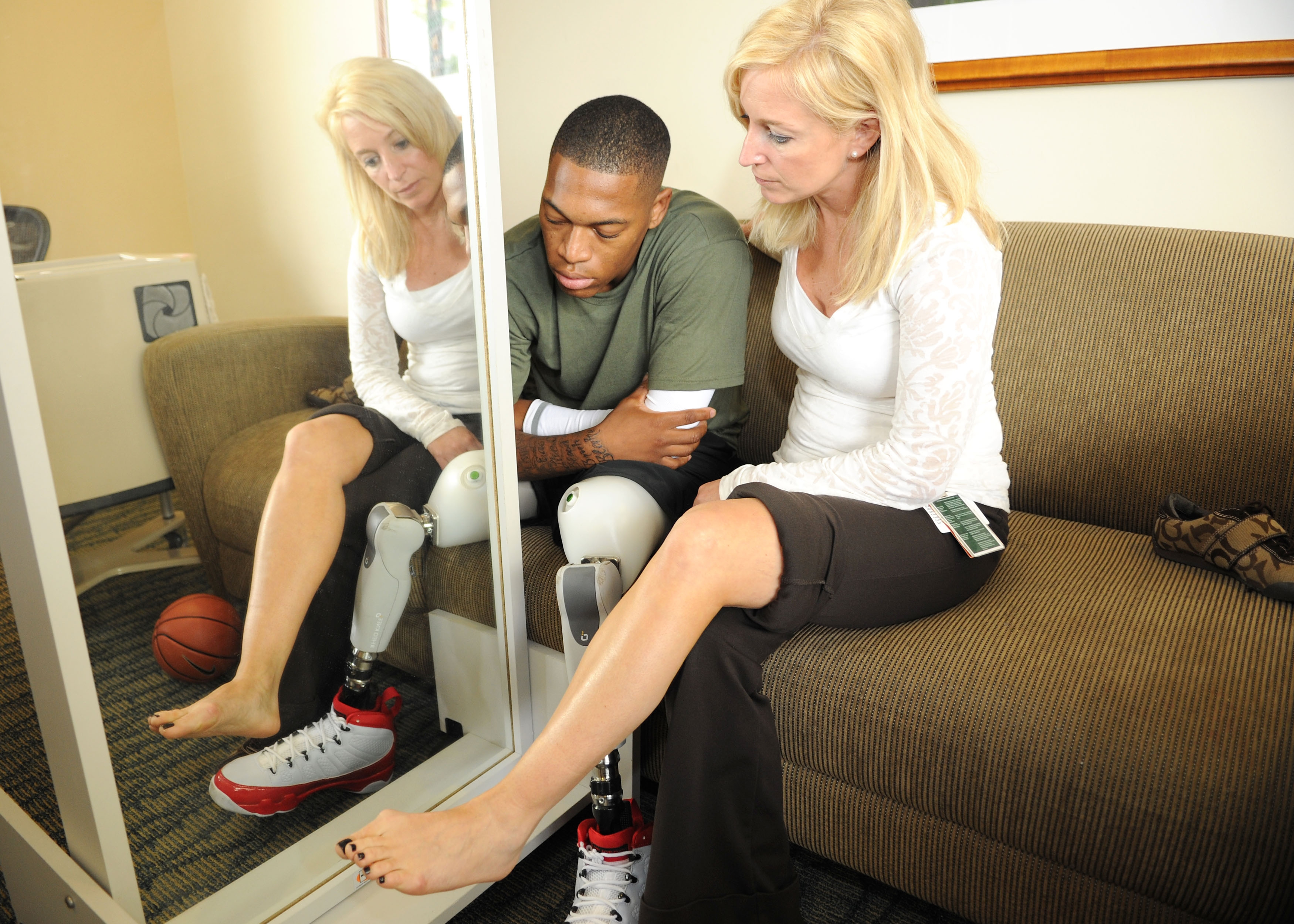 SAN DIEGO (June 13, 2011) Lynn Boulanger, an occupational therapy assistant and certified hand therapist, uses mirror therapy to help address phantom pain for Marine Cpl. Anthony McDaniel. The Occupational Therapy department provides patients with rehabilitation services to heal and restore service members to their highest level of everyday functional outcomes. (U.S. Navy photo by Mass Communication Specialist Seaman Joseph A. Boomhower/Released)